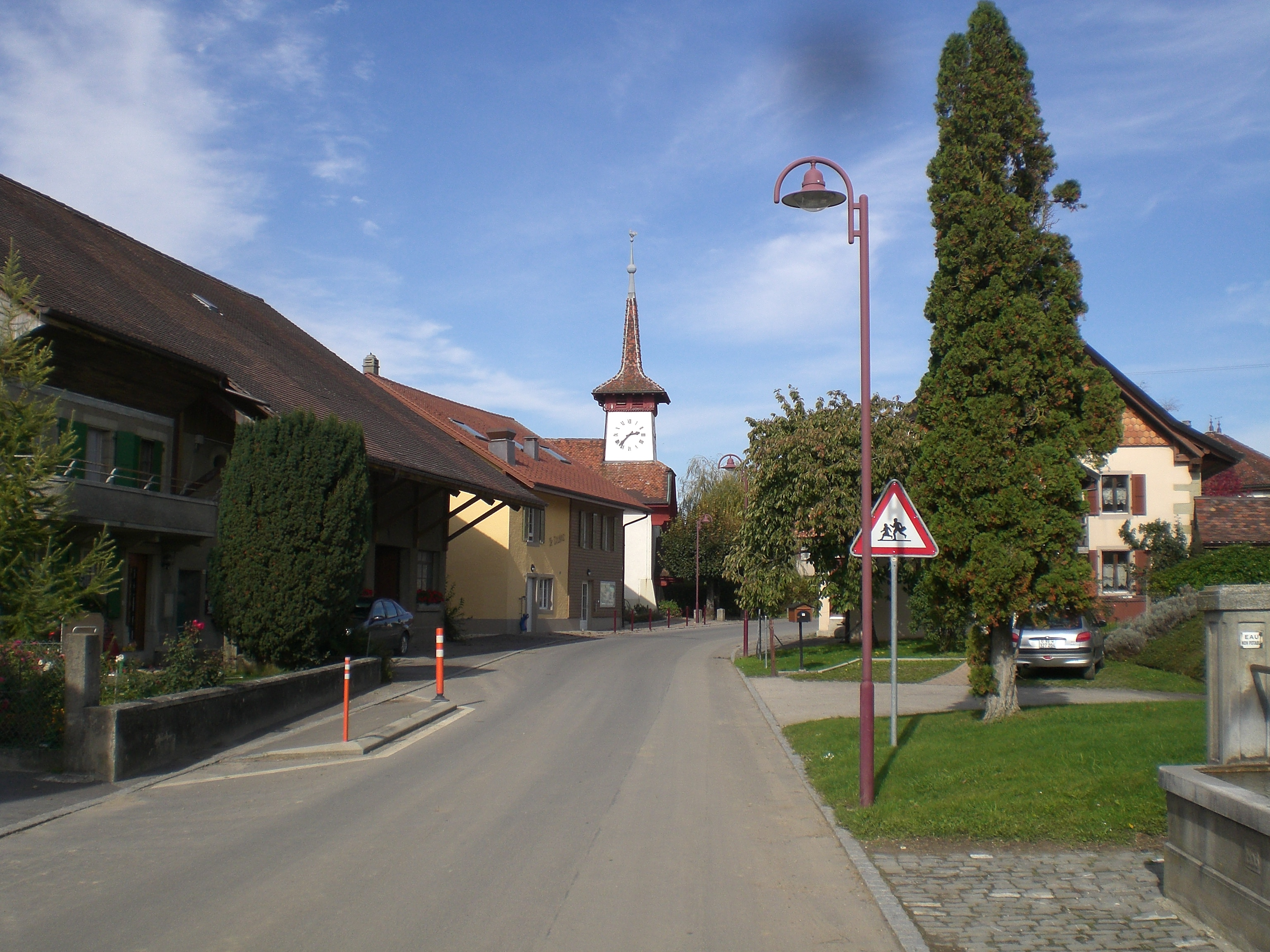 Church and village of Rueyres, canton of Vaud, Switzerland